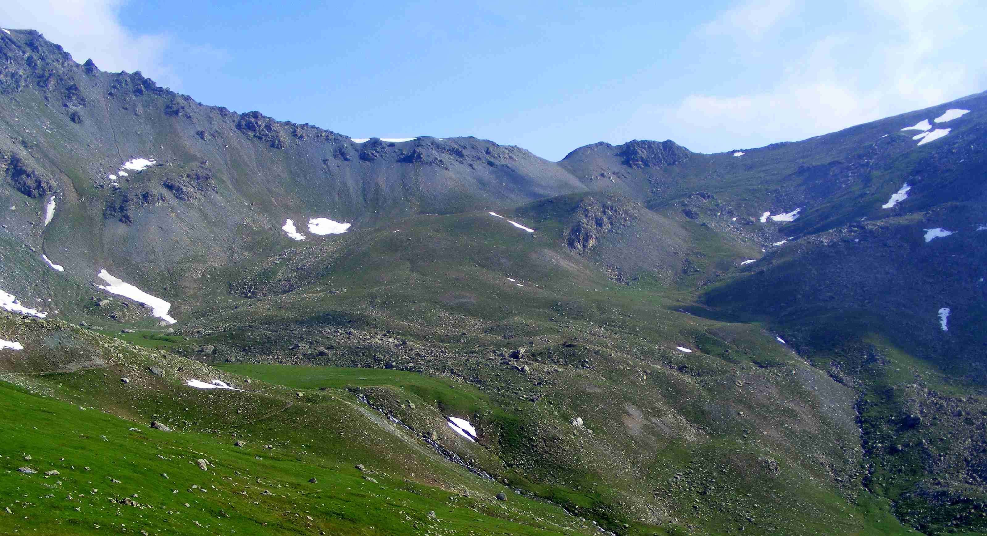 Colle della Gianna (Gianna's pass): southern slopes; TO/CN, Italy, Cottian Alps